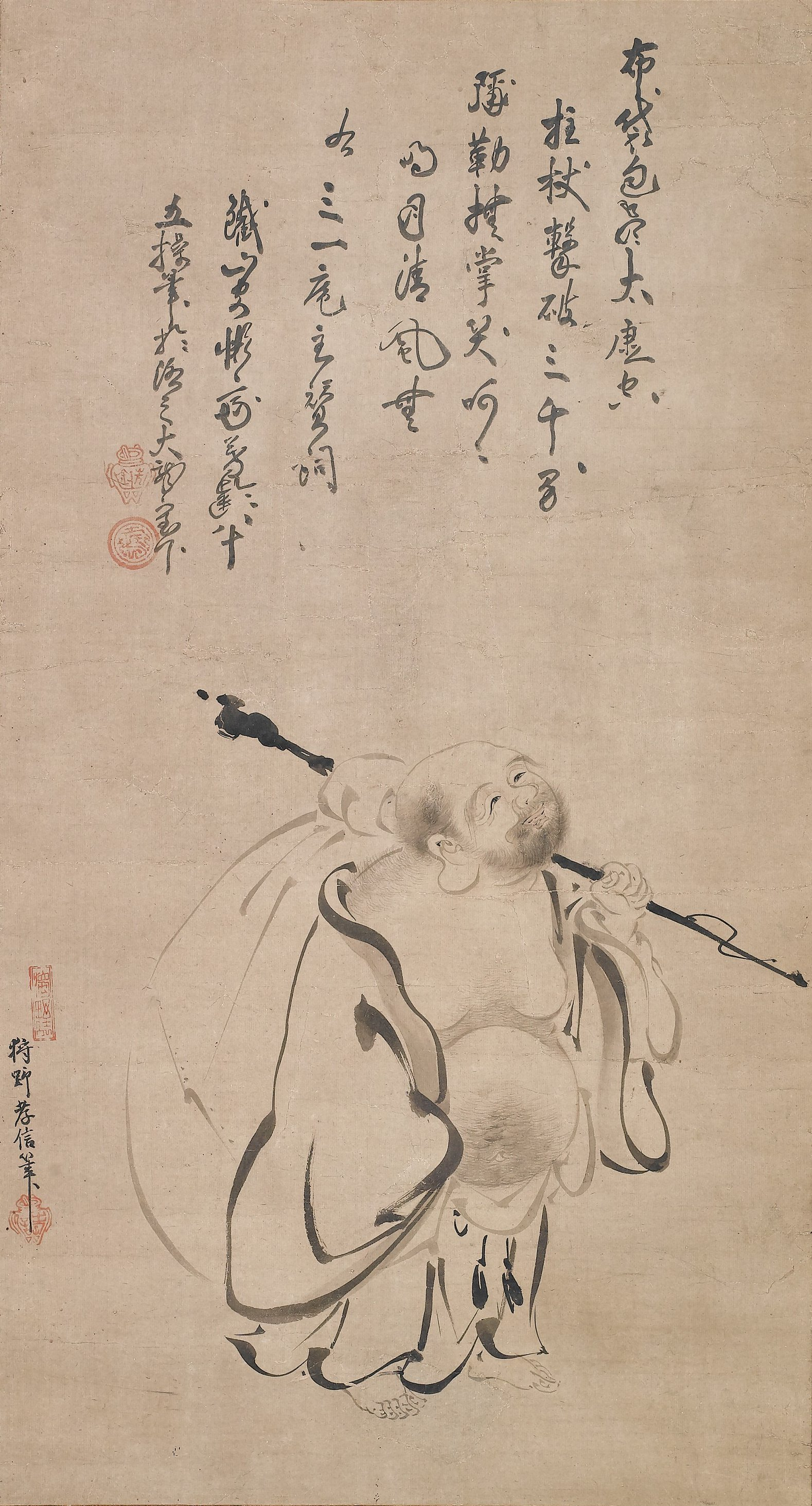 Hotei by Kano Takanobu with calligraphy by Tetsuzan Sōdon, Edo period, dated 1616, Japan, hanging scroll; ink and color on paper, image: 27 1/2 x 15 in. (69.9 x 38.1 cm), Metropolitan Museum of Art, accession 2006.115